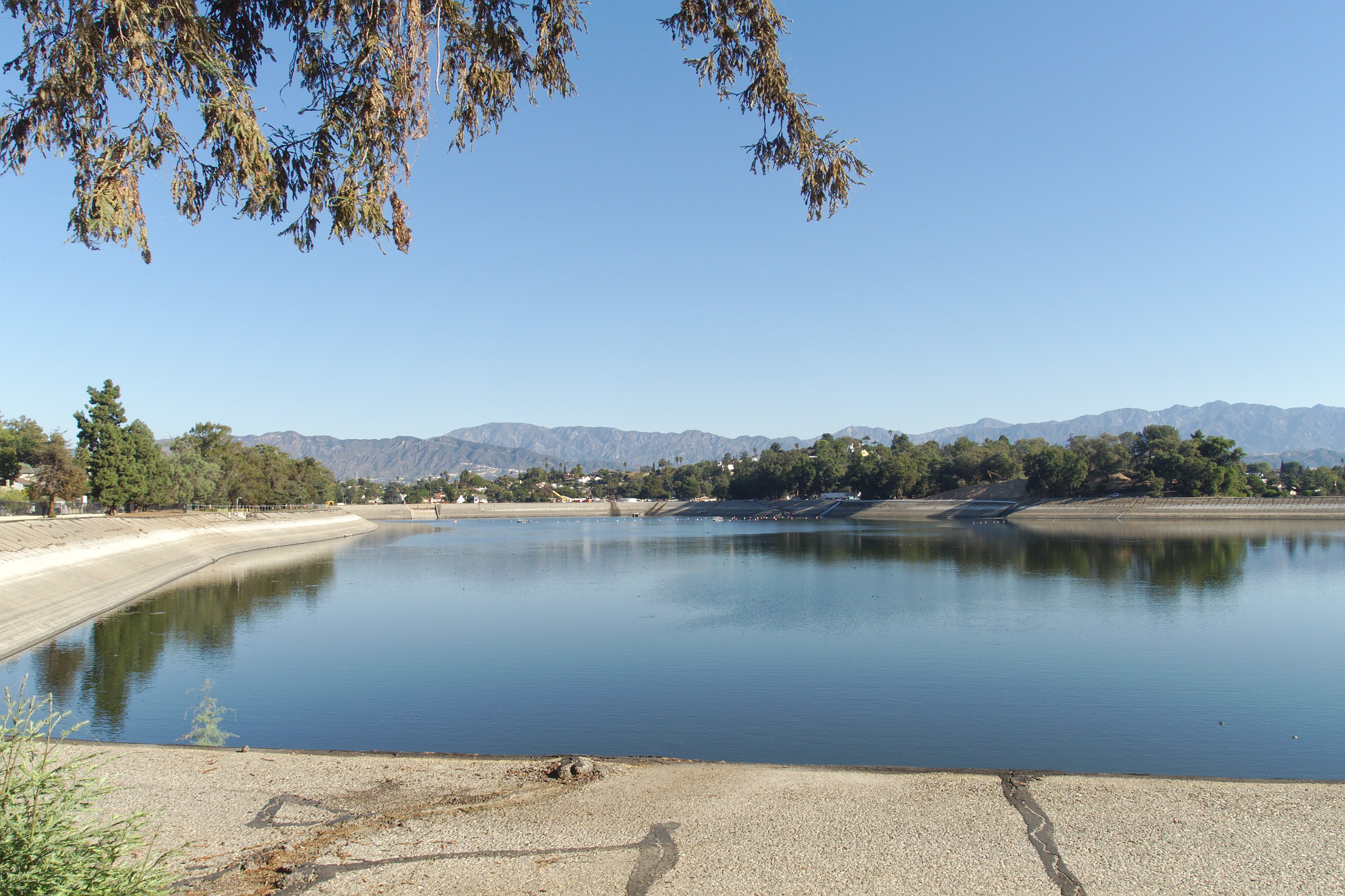 Looking north across the Silver Lake Reservoir from the southwestern end.